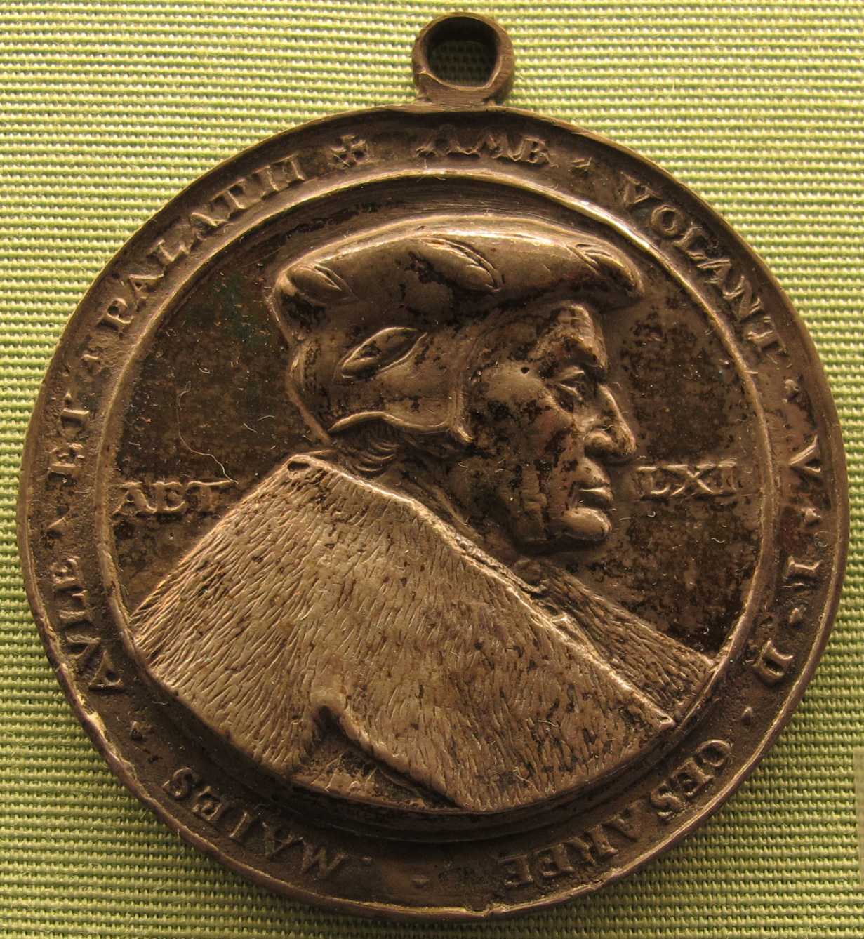 A german medal from 1533 made by Christoph Weiditz showing Ambrosius Volland